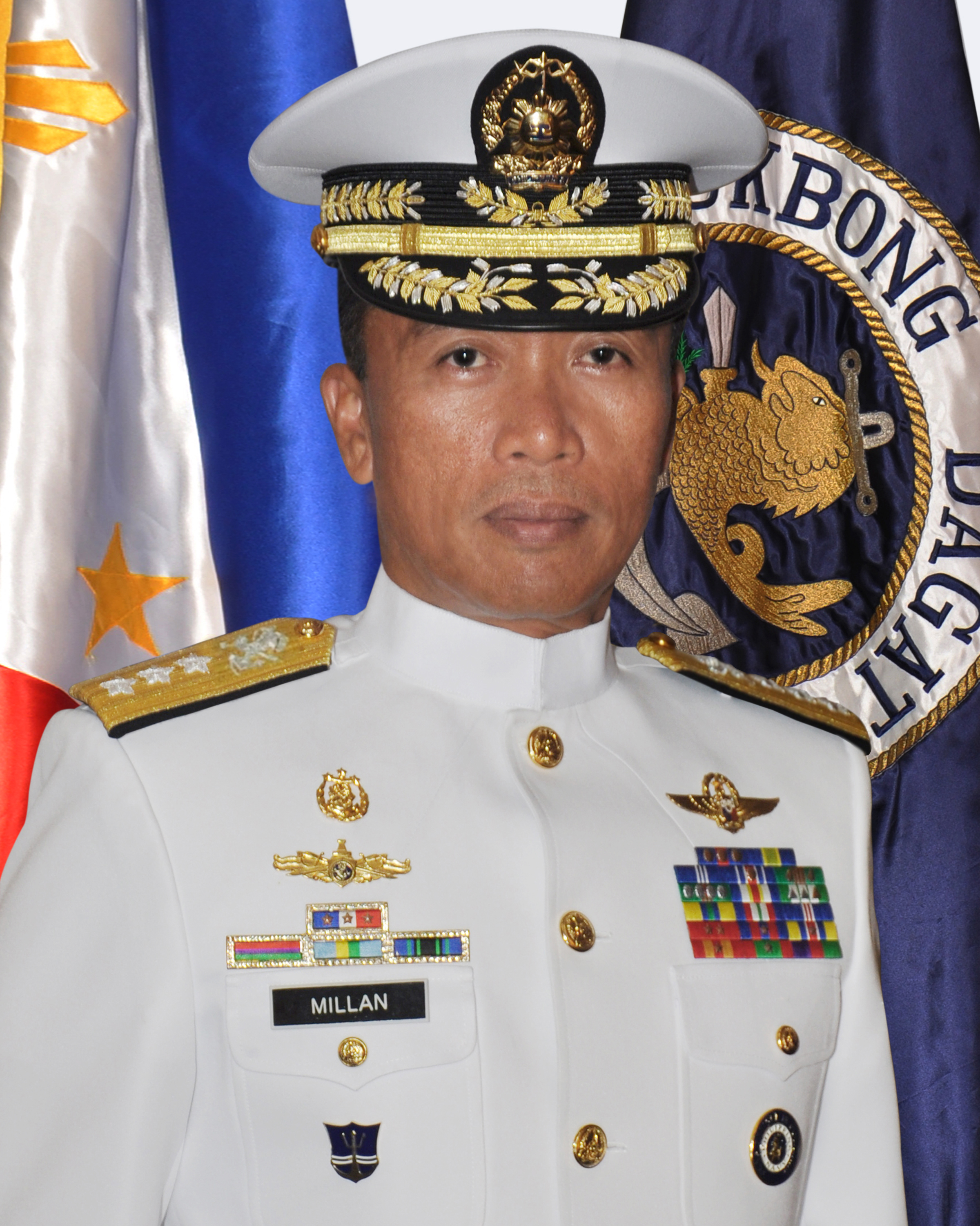 VADM Jesus C Millan AFP